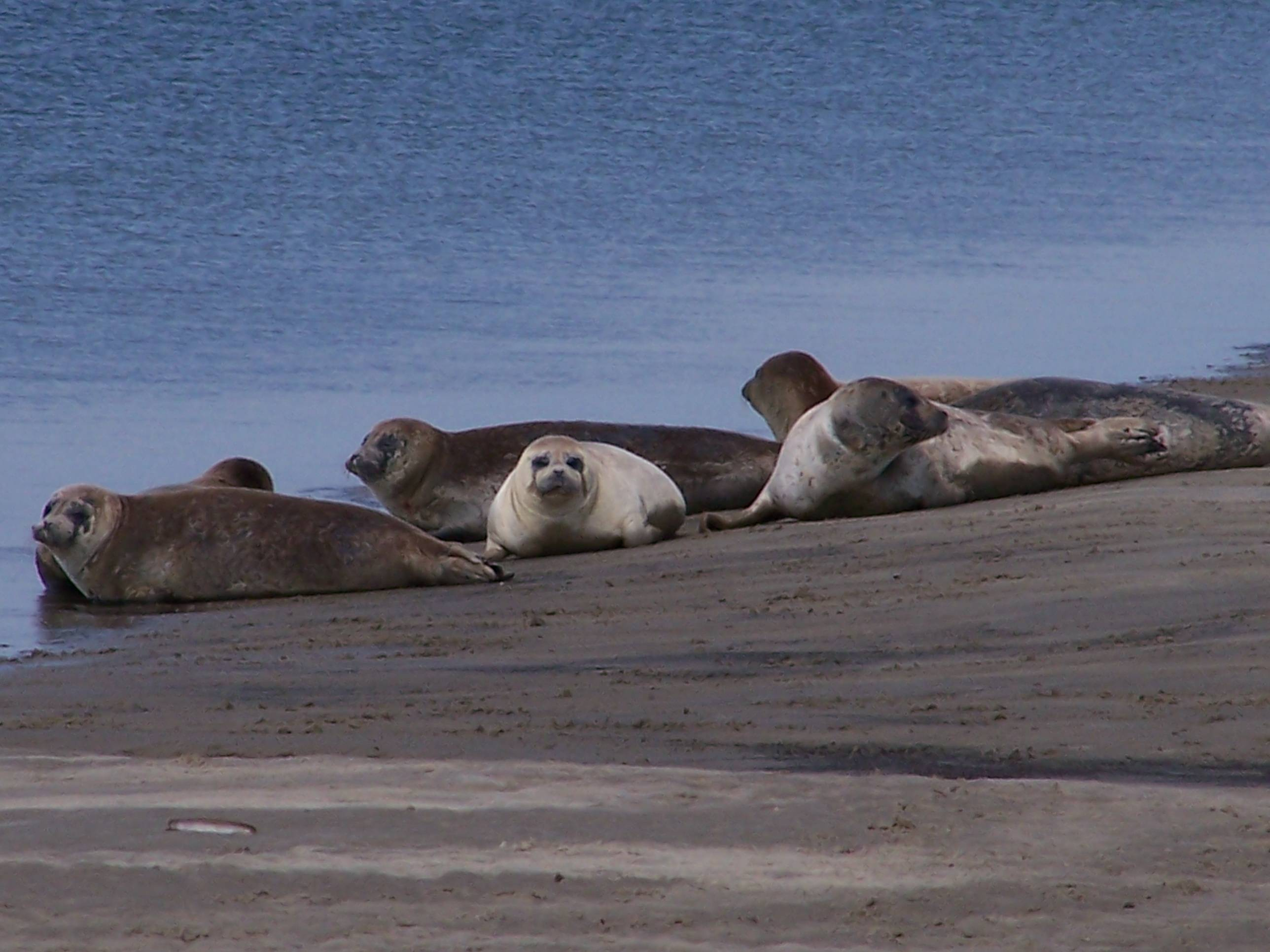 Harbour Seals on the coast of Fanø, Denmark